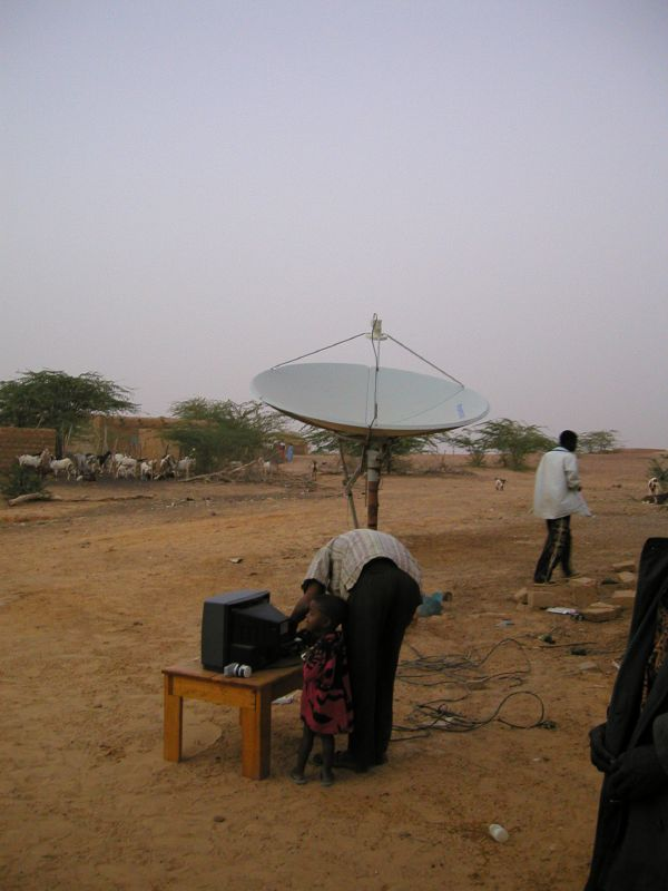 Here the Major (kind of like a nurse practitioner - the main health guy for the Canton) sets up his satellite TV to share with the locals for the evening. He uses a generator for the power.